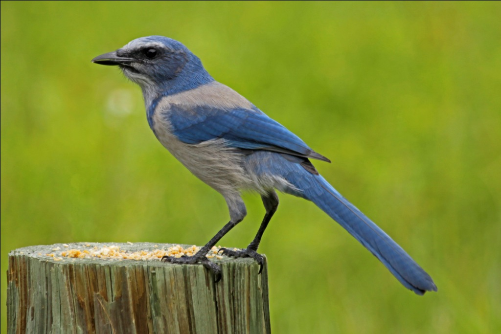 Florida Scrub Jay - Aphelocoma coerulescens, Merritt Island National Wildlife Refuge, Titusville, Florida. I've been trying to see one of these beautiful birds for years. I was told you had to call for them, "a sort of squawk with spit". So I tried. Imagine my surprise when a stunning blue and gray bird flew out of the pine tree, straight at my eyes. I closed my eyes, anticipating an Alfred Hitchcock "The Birds" scenario, and it landed on my head. It scratched around my head for about a minute, then flew off to the post where this picture was taken. The other people in the parking lot were just killing themselves laughing. This is apparently fairly common, but it was a big surprise for me.